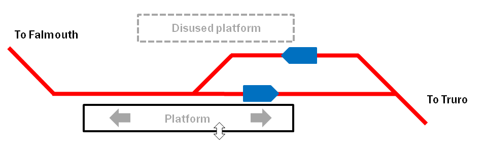 A diagram (not to scale) showing the arrangement of tracks at Penryn railway station in Cornwall, United Kingdom, as they are in 2009.